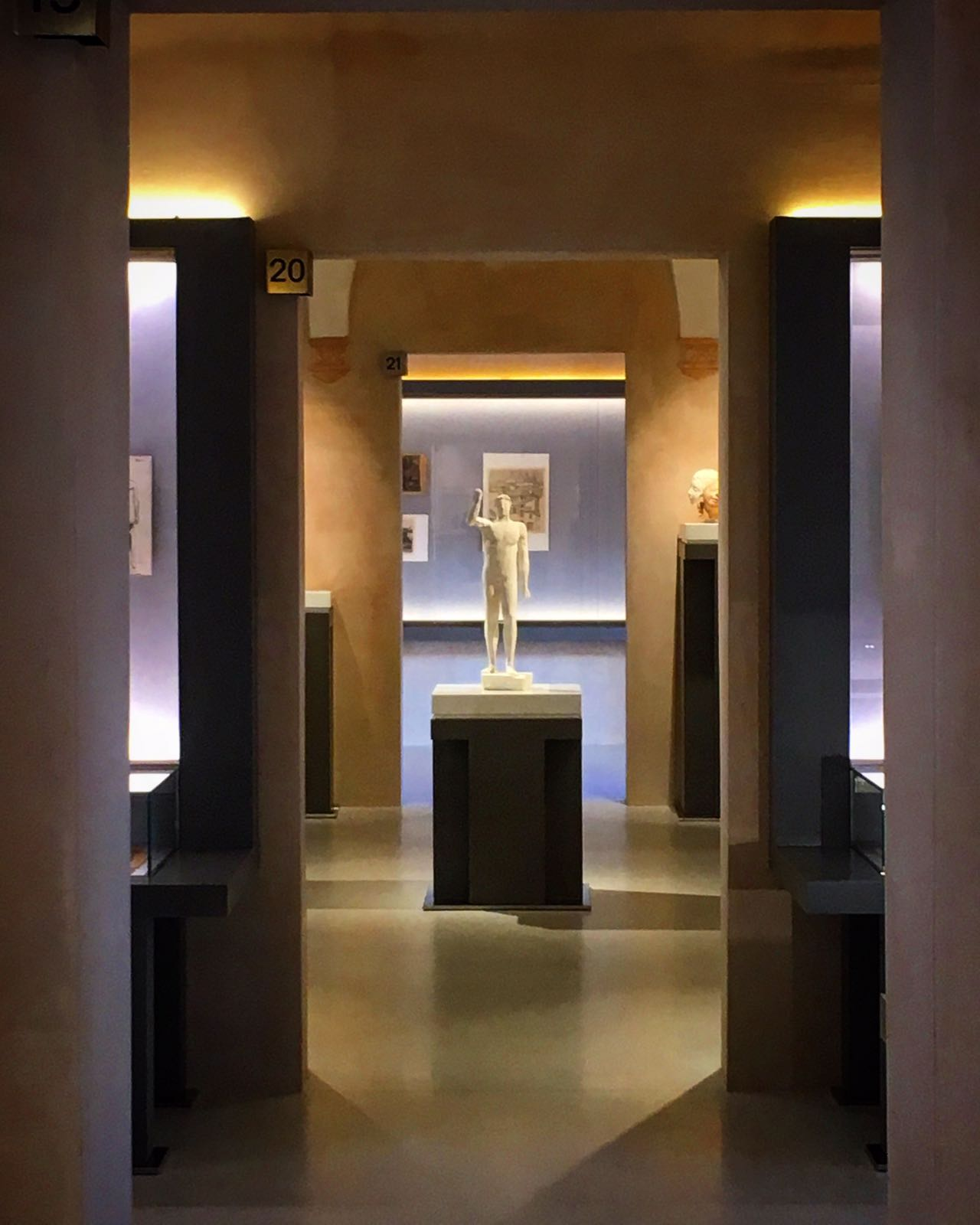 Museum "Luigi Bailo" in Treviso (Italy)